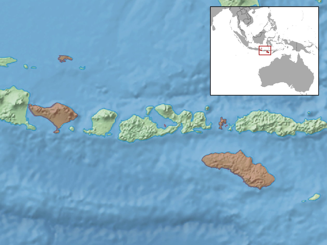 geographic distribution of Cryptoblepharus renschi